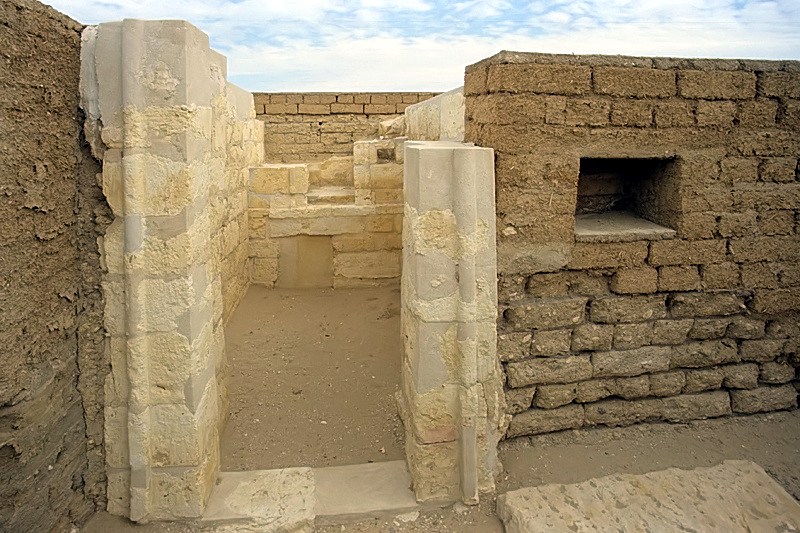 Detail of the small temple, Umm el-Burigat (Tebtunis), el-Fayyum, Egypt